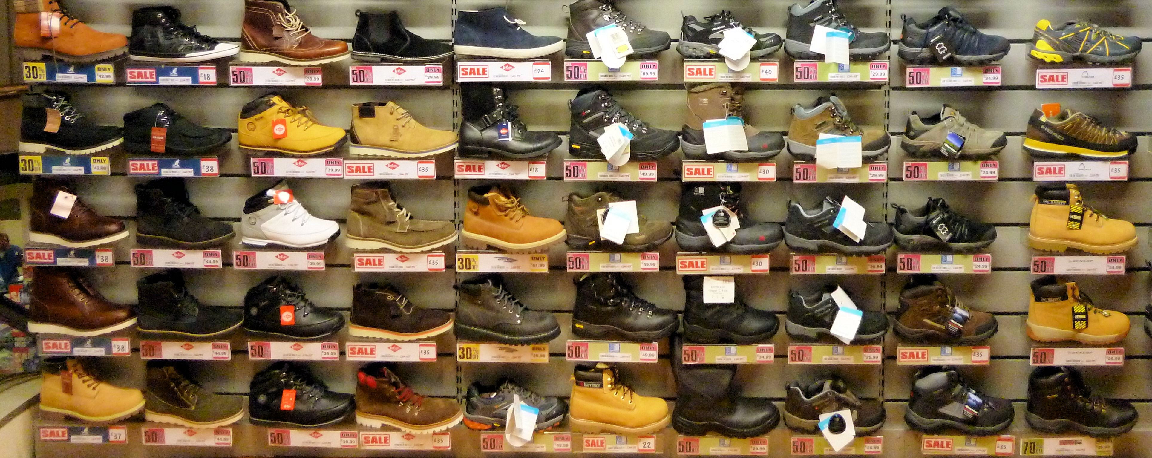 A photo of a 2012 shoe sale display, London, United Kingdom.